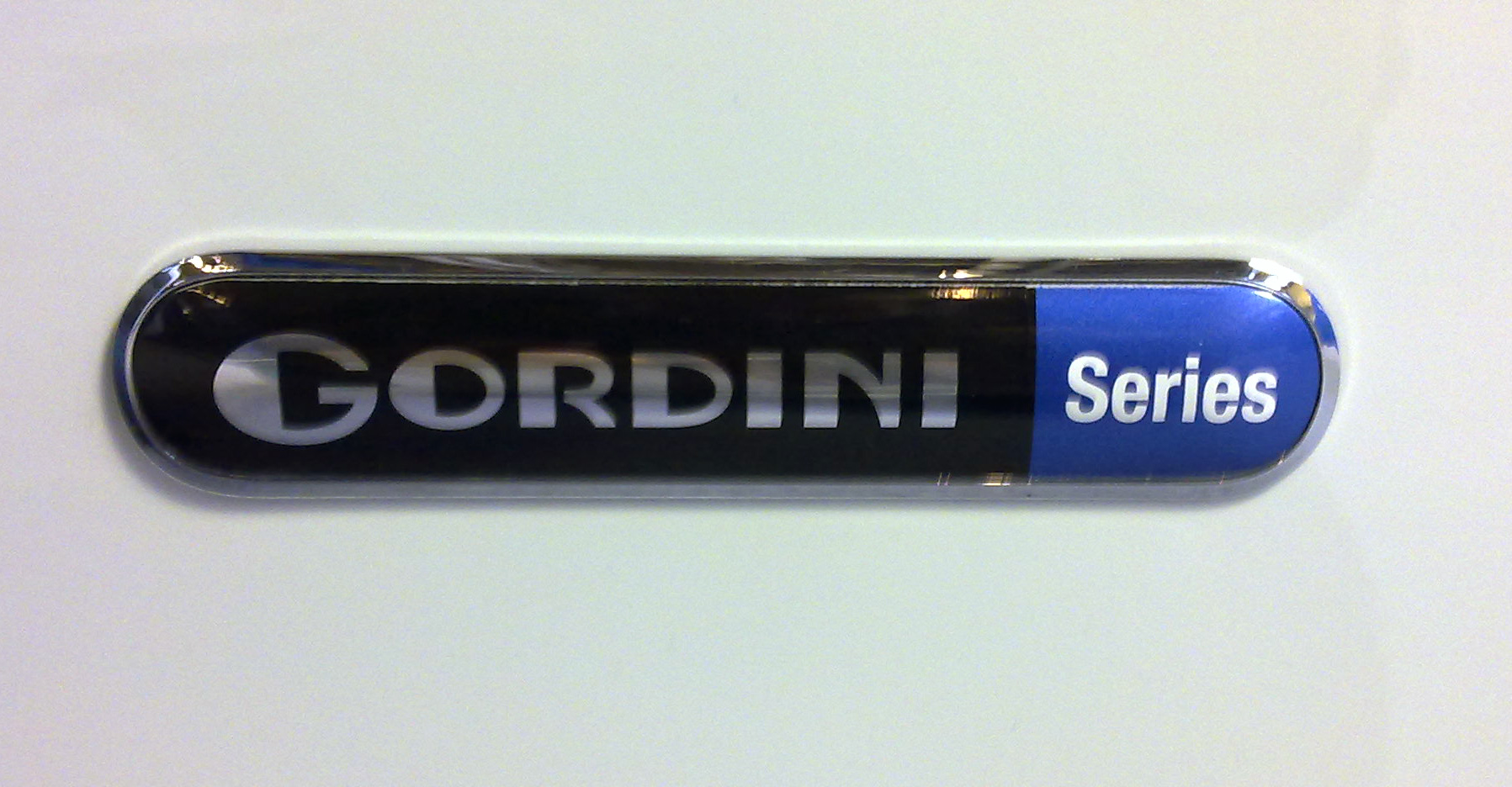 Gordini Series Logo on Clio III RS.